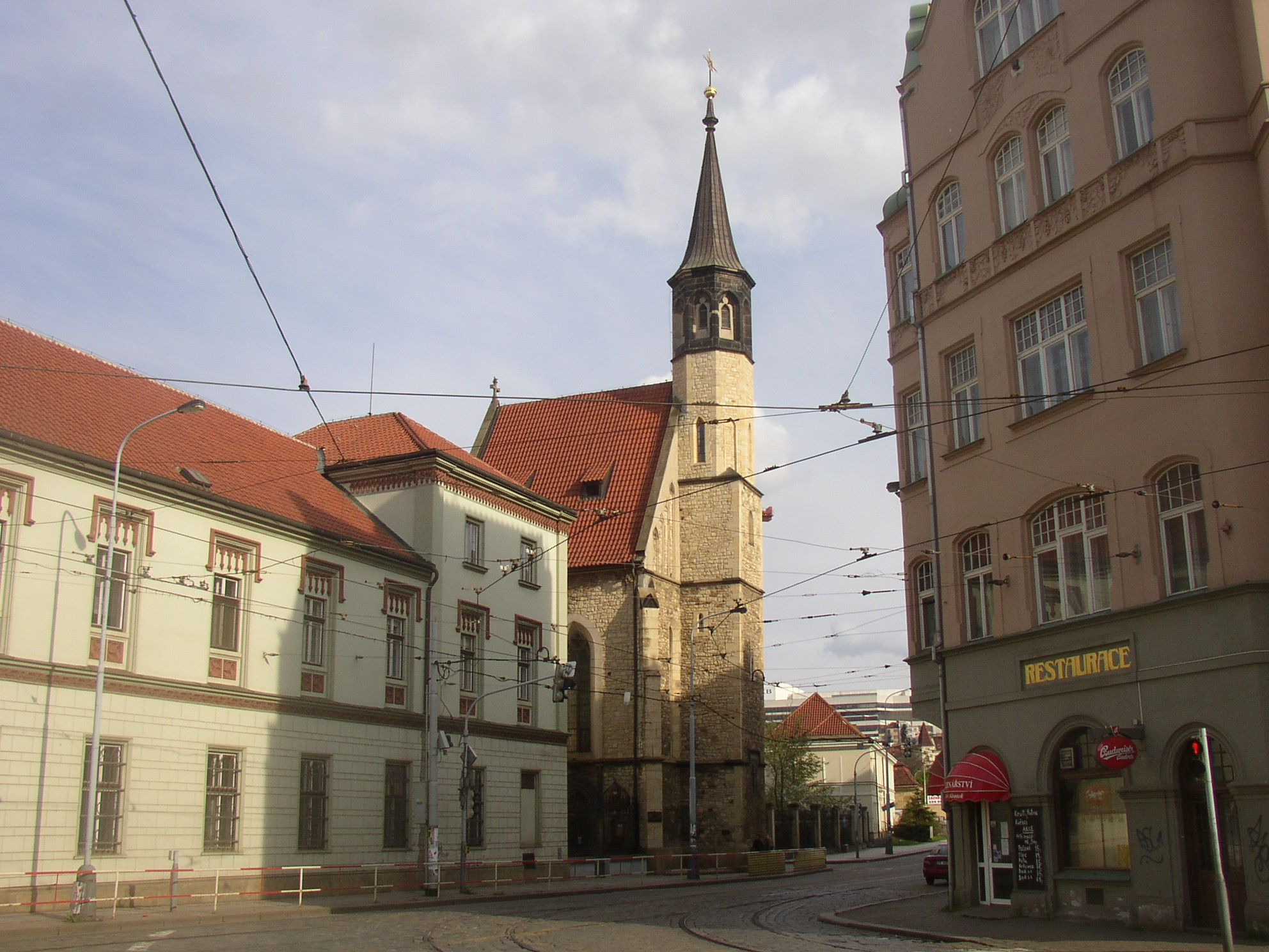 Our Lady`s Annunciation church Na trávníčku in Prague, Czech Republic.